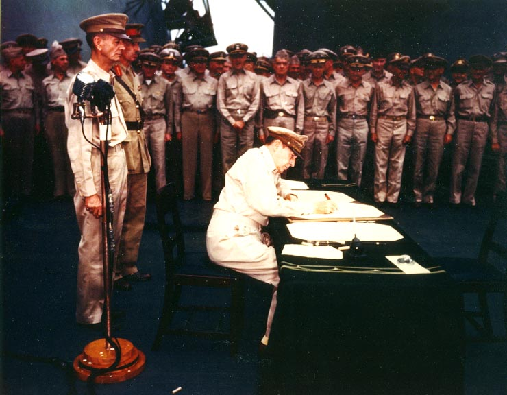 Removed caption read: Photo # USA C-4627 Gen. MacArthur signs japanese surrender instrument